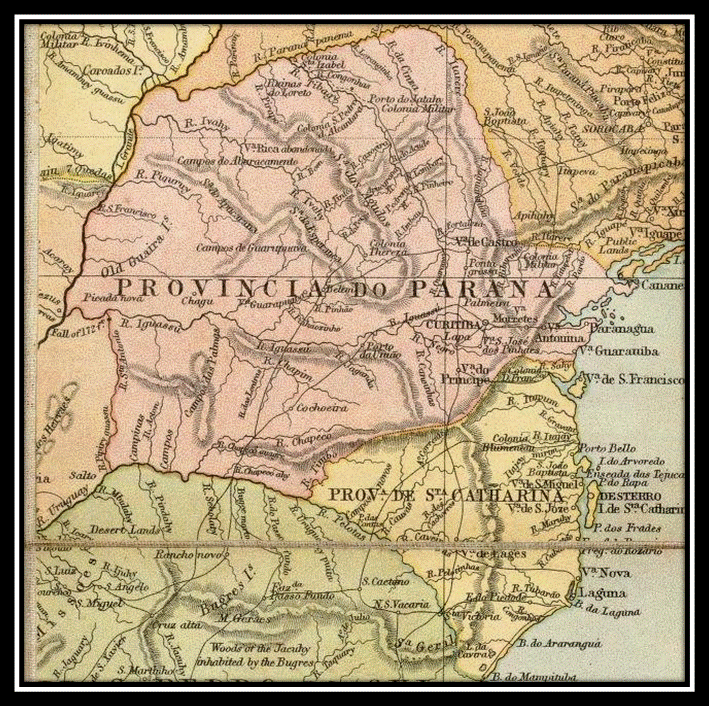 Mapa da Província do Paraná em 1866, recortado do New map of Brazil compiled from the latest government & other authentic sources, for William Scully, Editor of the Anglo Brazilian Times, Rio de Janeiro, 1866. Published By William Scully, Rio de Janeiro. Drawn & engraved by George Philip & Son, Liverpool & London